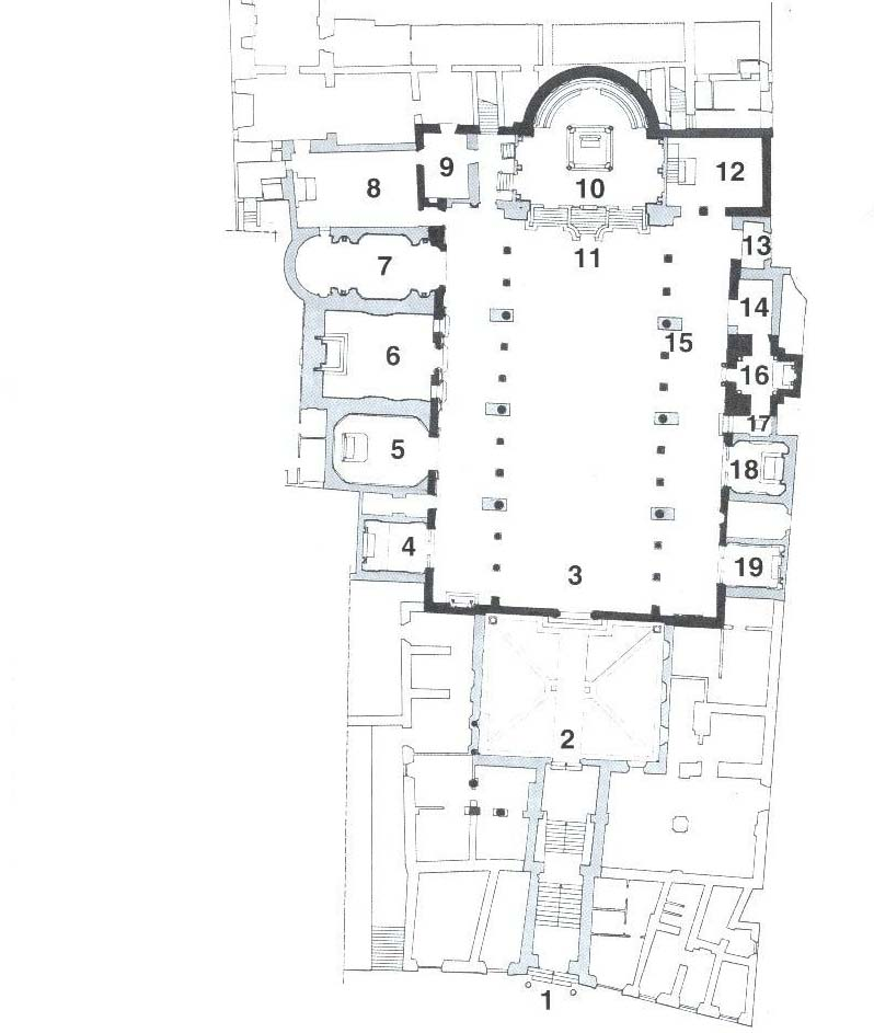 Santa Prassede - plan